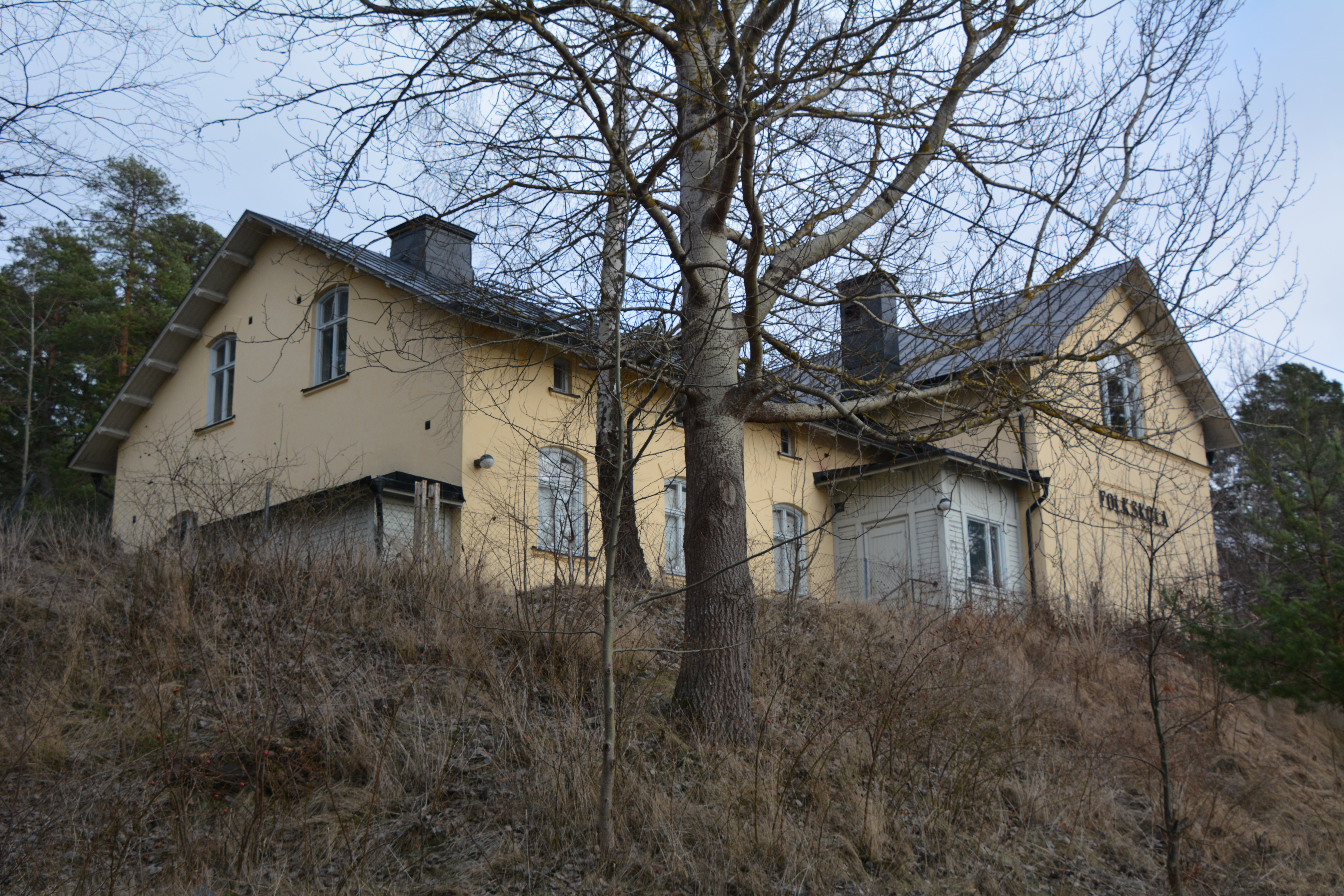 Lövsta skola